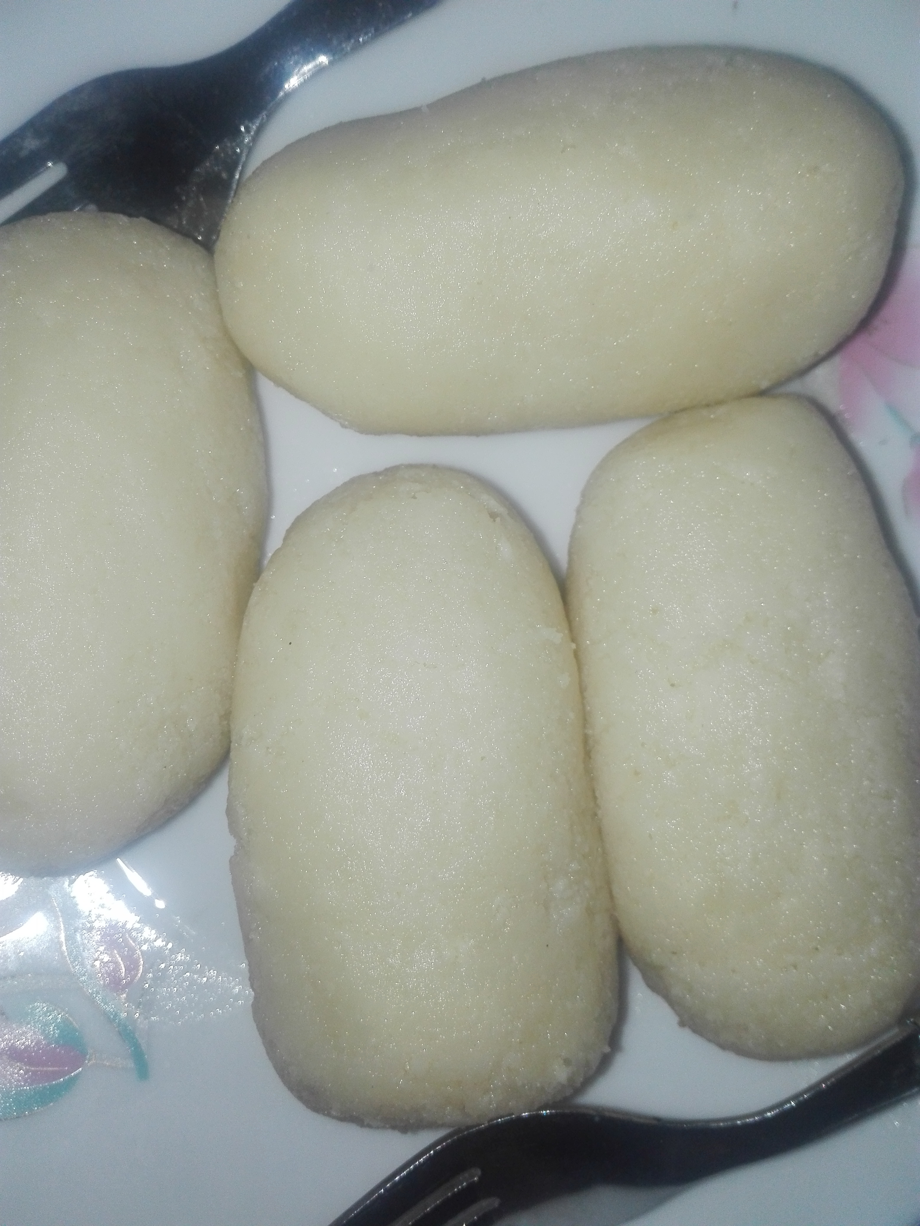 chomchom - a Bangladeshi sweet